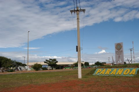 Paranoá's entrance